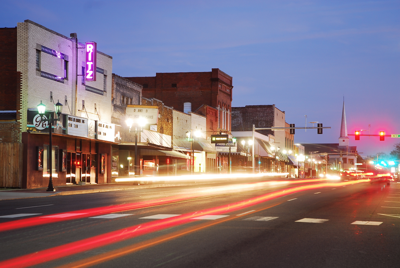 Downtown Malvern in November of 2011